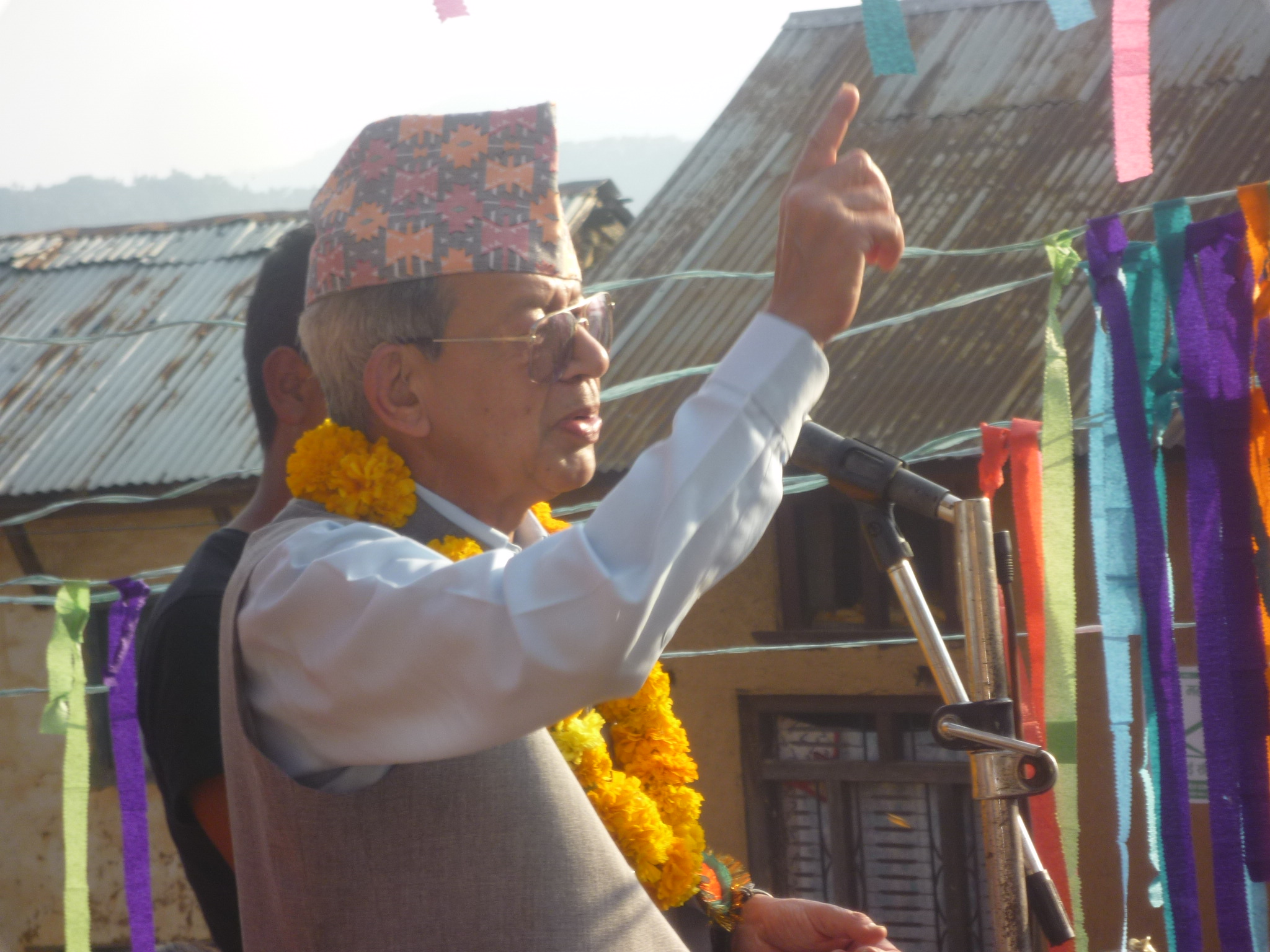 Pashupati Sahamsher JB Rana during election campaign in Sindhupalchok distict.